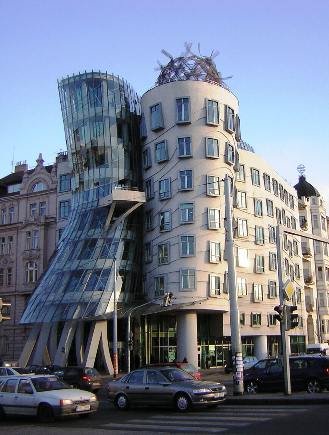 Praha_New Town, The dancing House. Gehry - Milunic 1996